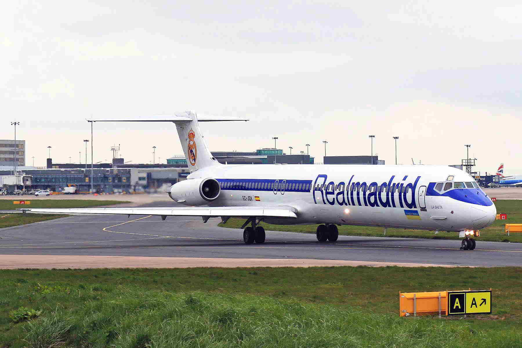 'Real Madrid' logojet